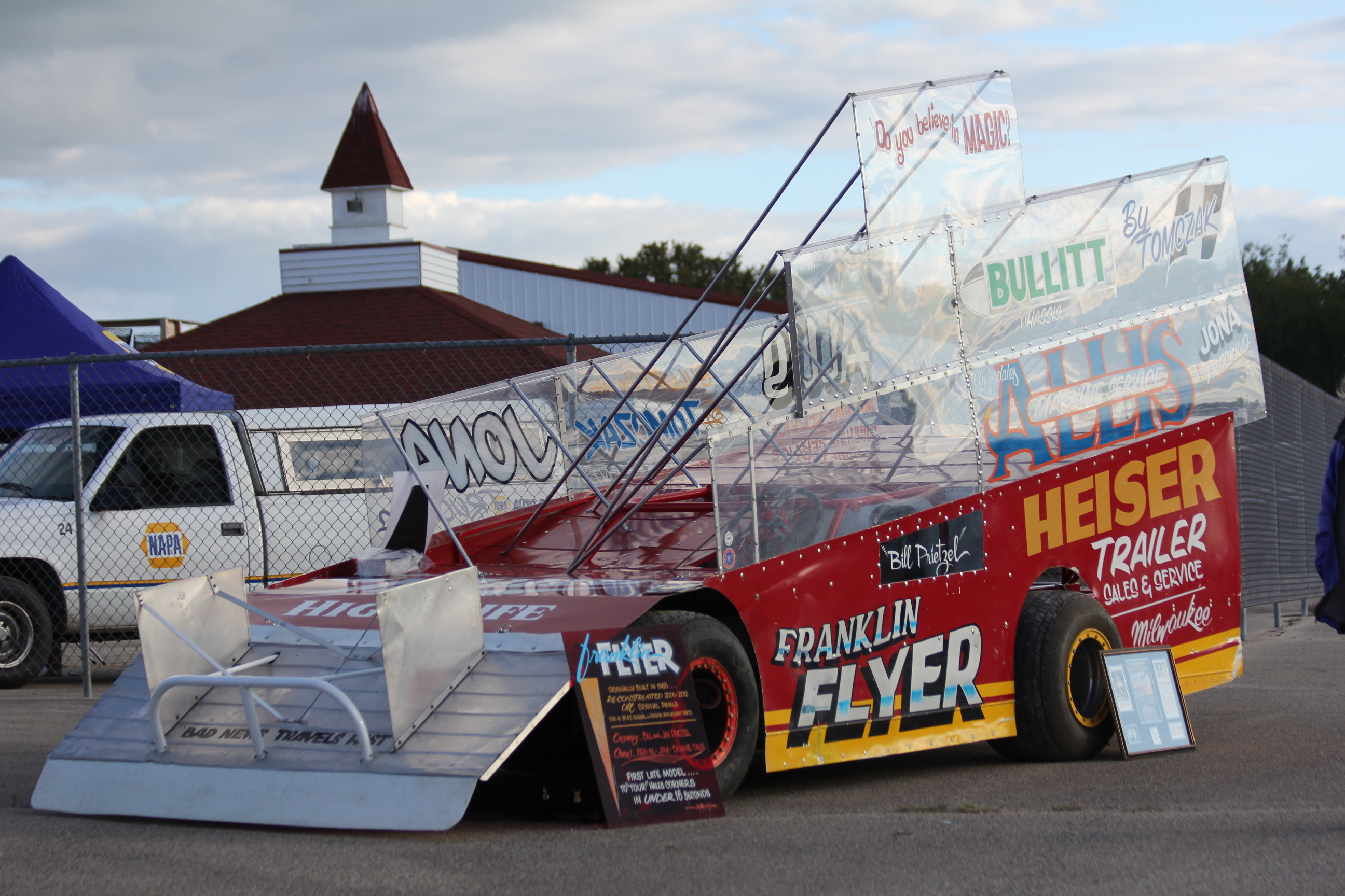 The dirt late model of Bill Prietzel which he raced at Hales Corners Raceway during an open show. It was the first car to race around the track in less than 16 seconds. The car was photographed while on display at Beaver Dam Raceway.